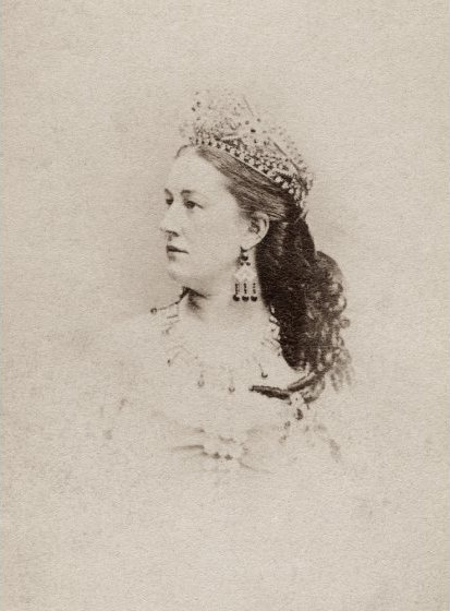 Carte-de-Visite of North American Actress Jean Hosmer (1842-1890)